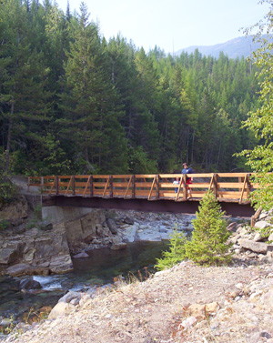 A trail bridge over Bear Creek in northern Flathead National Forest